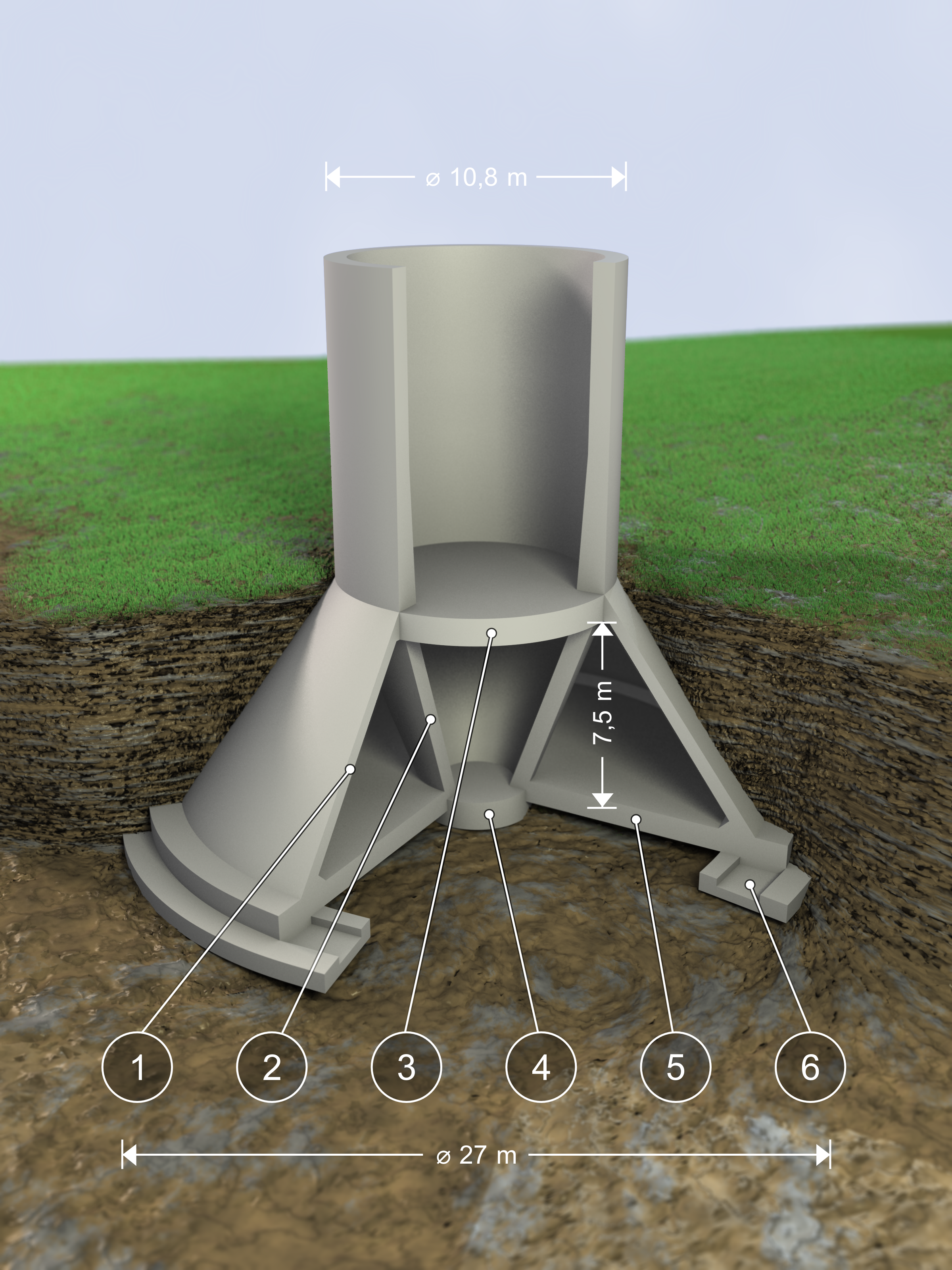 Diagram showing Foundation of the Television Tower in Stuttgart (Fernsehturm Stuttgart), weight of foundation: approximate: 1500 t